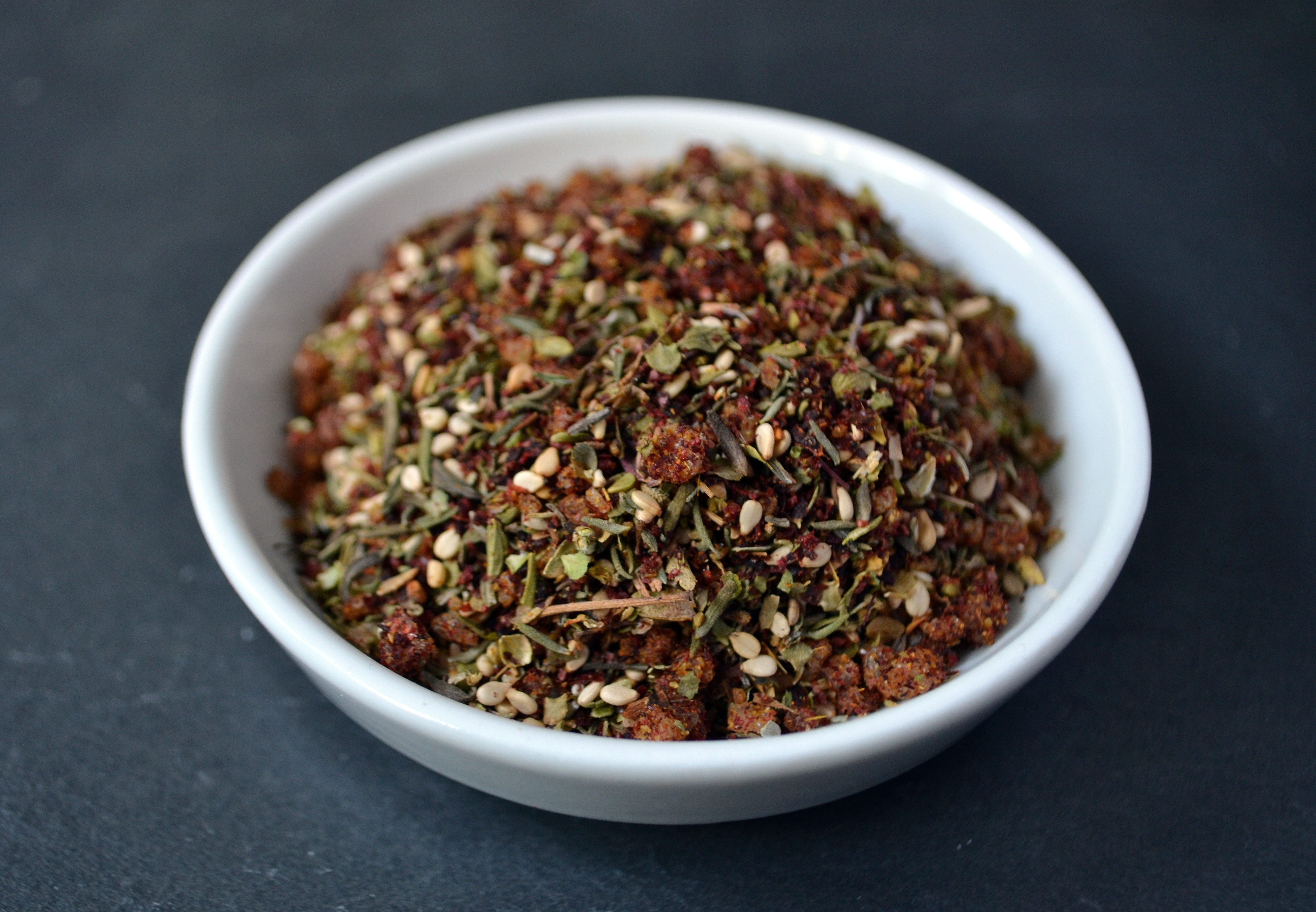 Zaʿtar